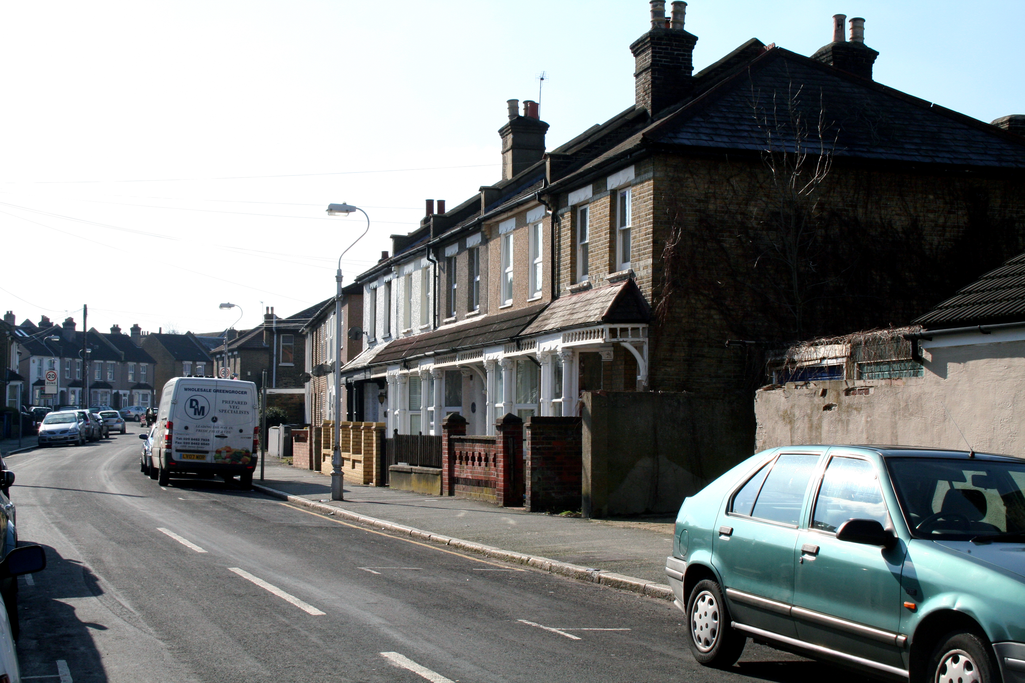 Croydon: Houses 169 to 161, Oval Road Oval Road is a road of strange shape and idiosyncratic house numbering. These houses are near the junction of Oval Road with Leslie Park Road.